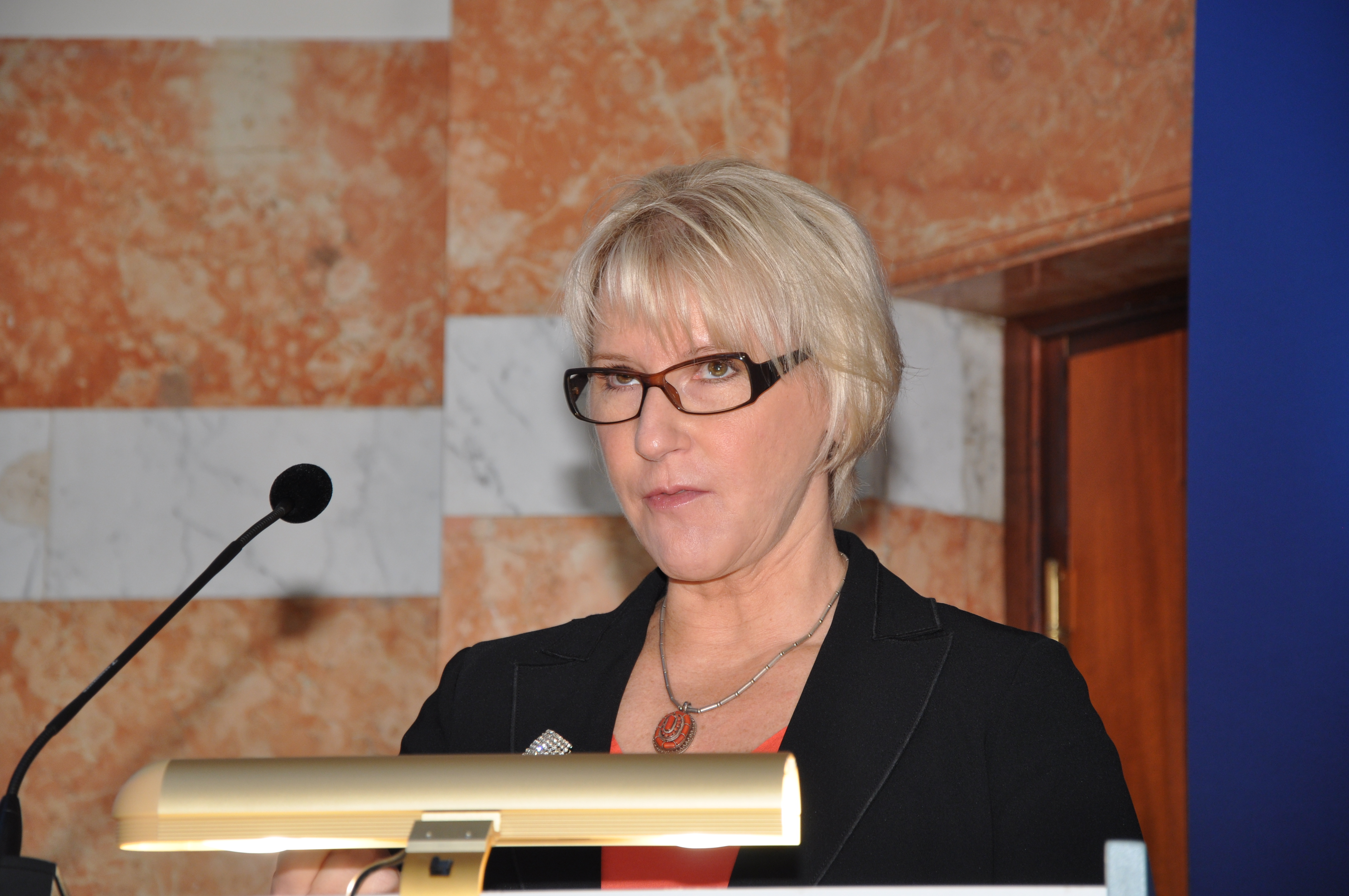 at a conference on legal transparency, Stockholm, Sweden